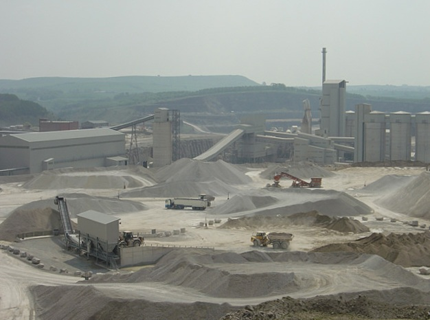 Tunstead Quarry This view gives some idea of the extent of the quarry, with grading areas in the foreground, the new cement factory behind this, and part of the working quarry face in the distance.